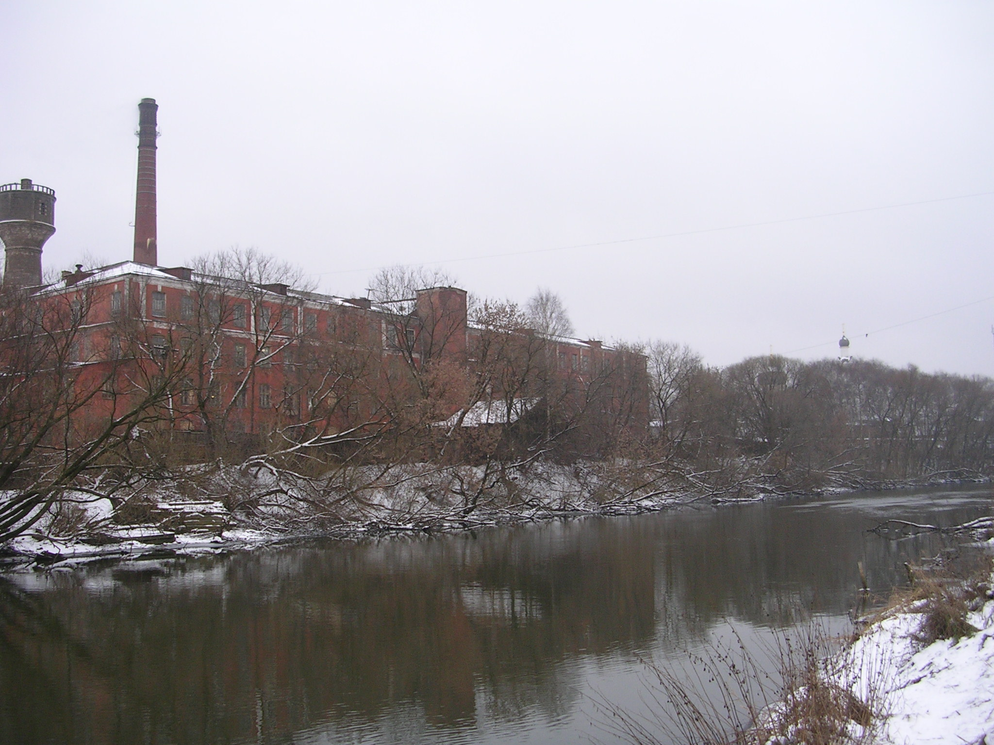 December wool weaving factory (1883) in Noginsk city on Klyazma river